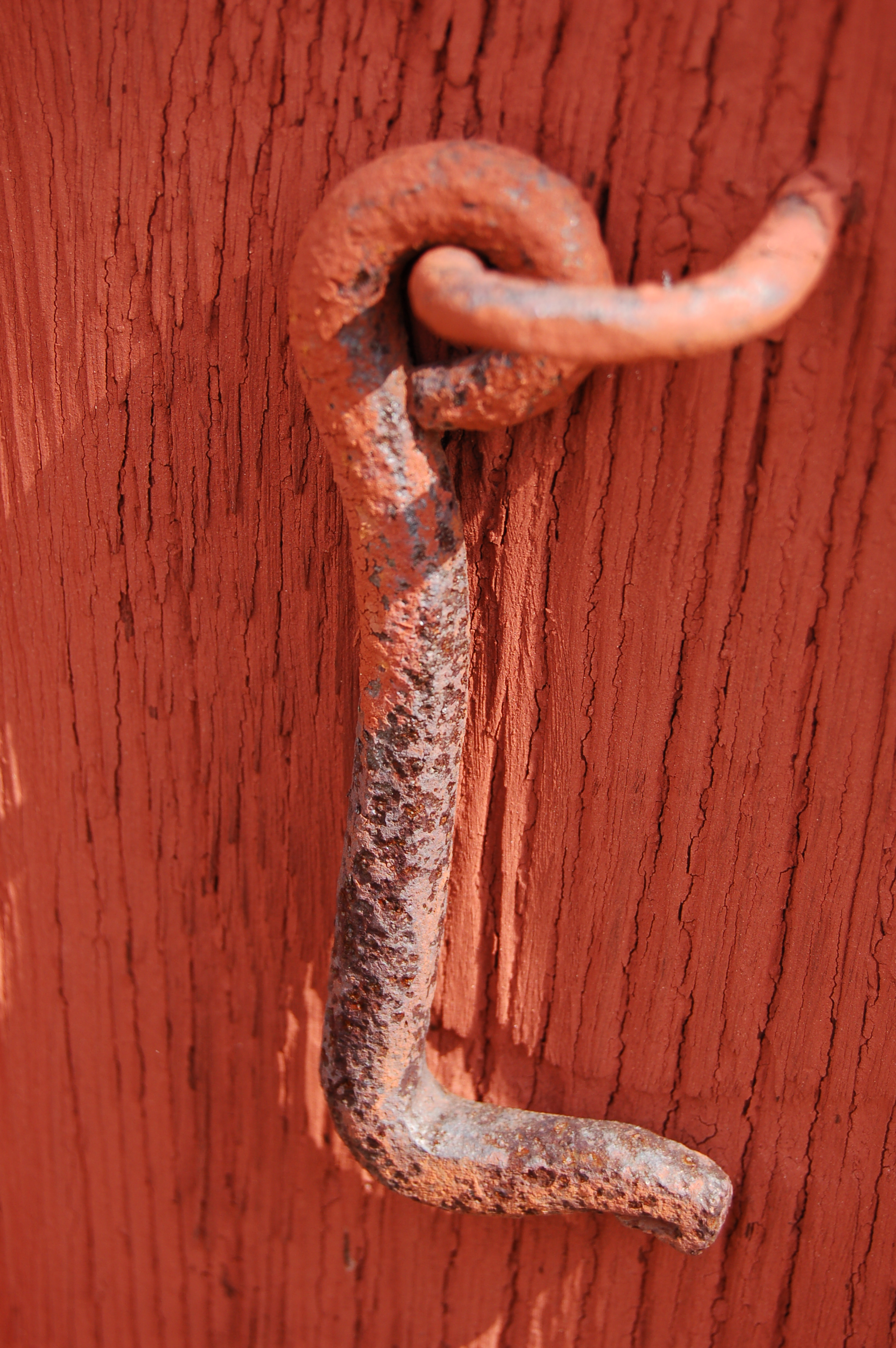 Latch (Latch), painted with Falu red (Falu red)